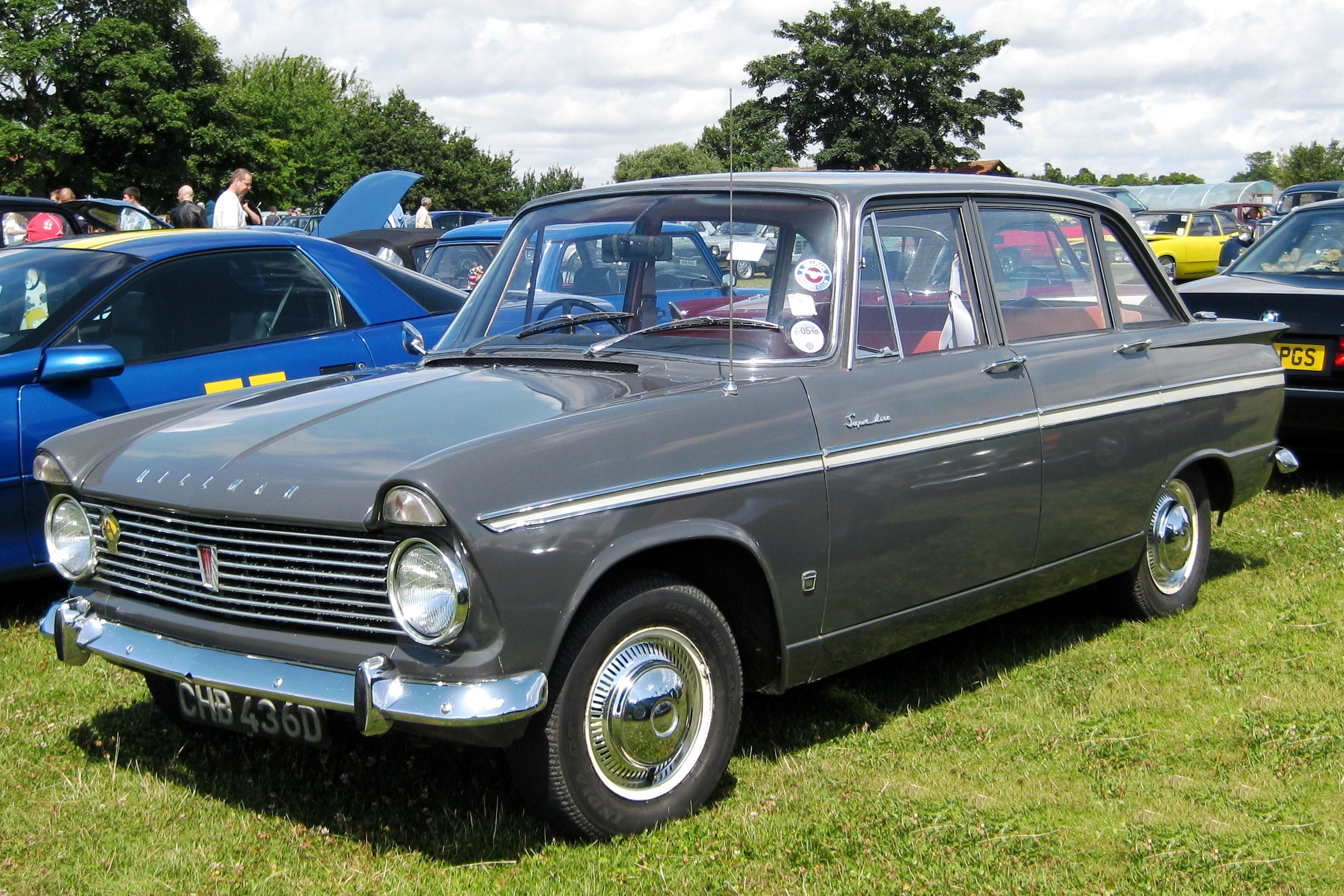 Hillman Super Minx after the engine size was increased to 1725 cc so one of the later ones